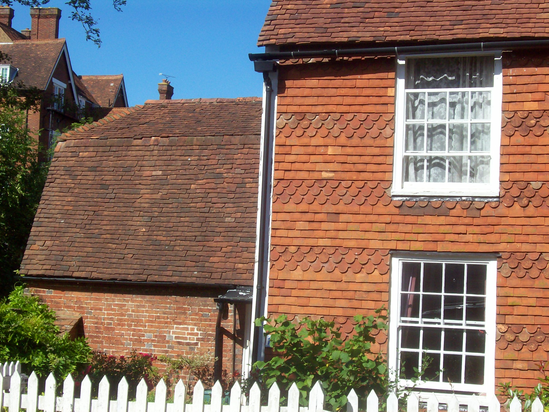 The surviving building of Hatmill, Cranbrook, now converted to residential use.